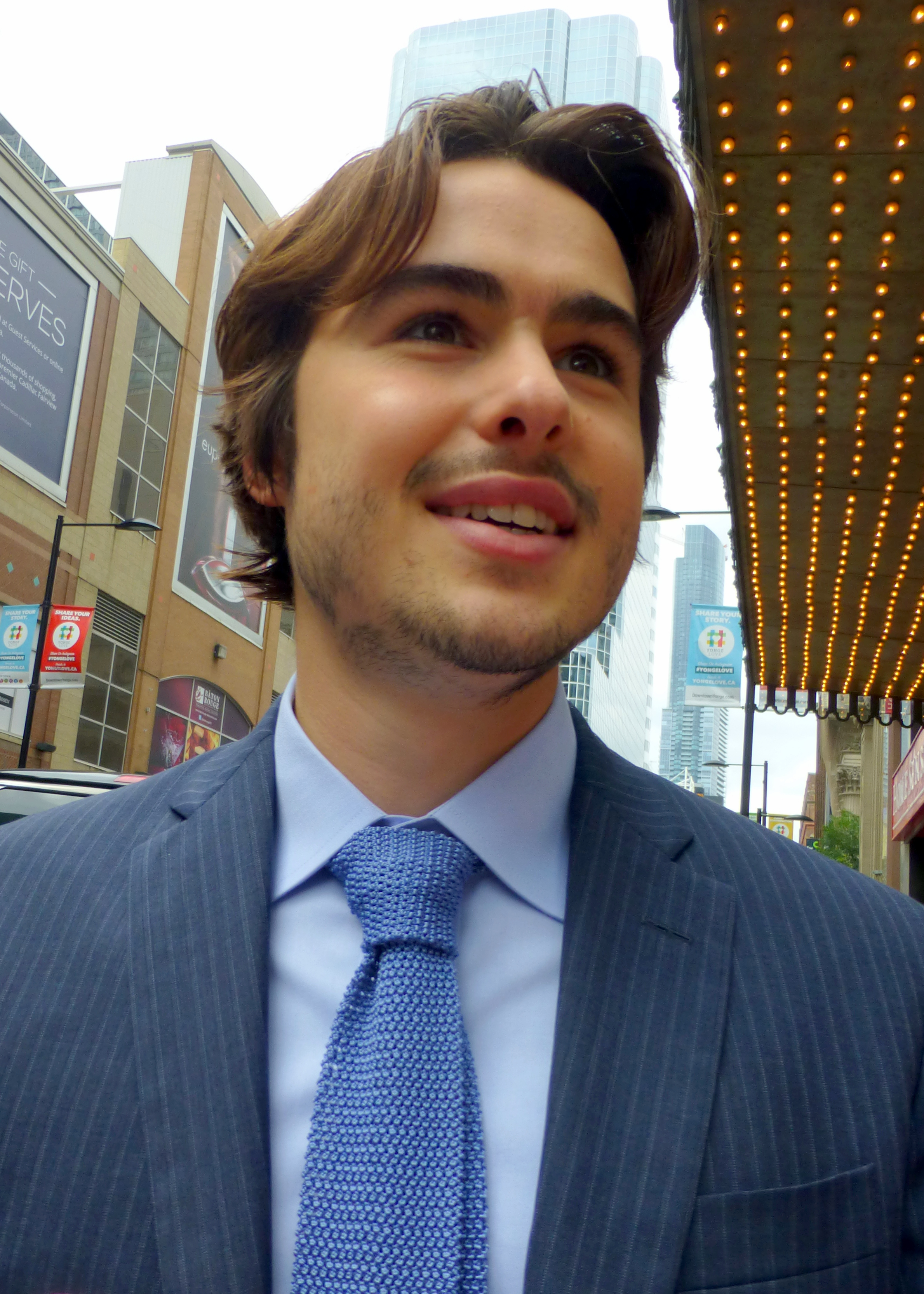 Ben Schnetzer at the premiere of Pride, 2014 Toronto Film Festival